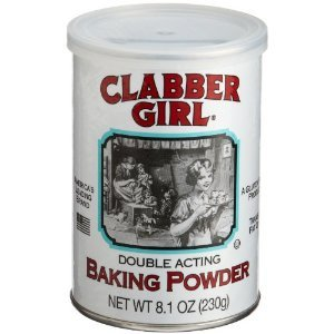 Photo of container of Clabber Girl brand baking powder